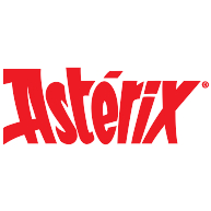 official original logo